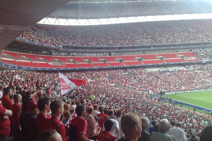 This image of the crowd at the FA Trophy Final Cup Win Ebbsfleet United FC vs Torquay United FC on 10th May 2008 was made by "shurm" and was edited by me.